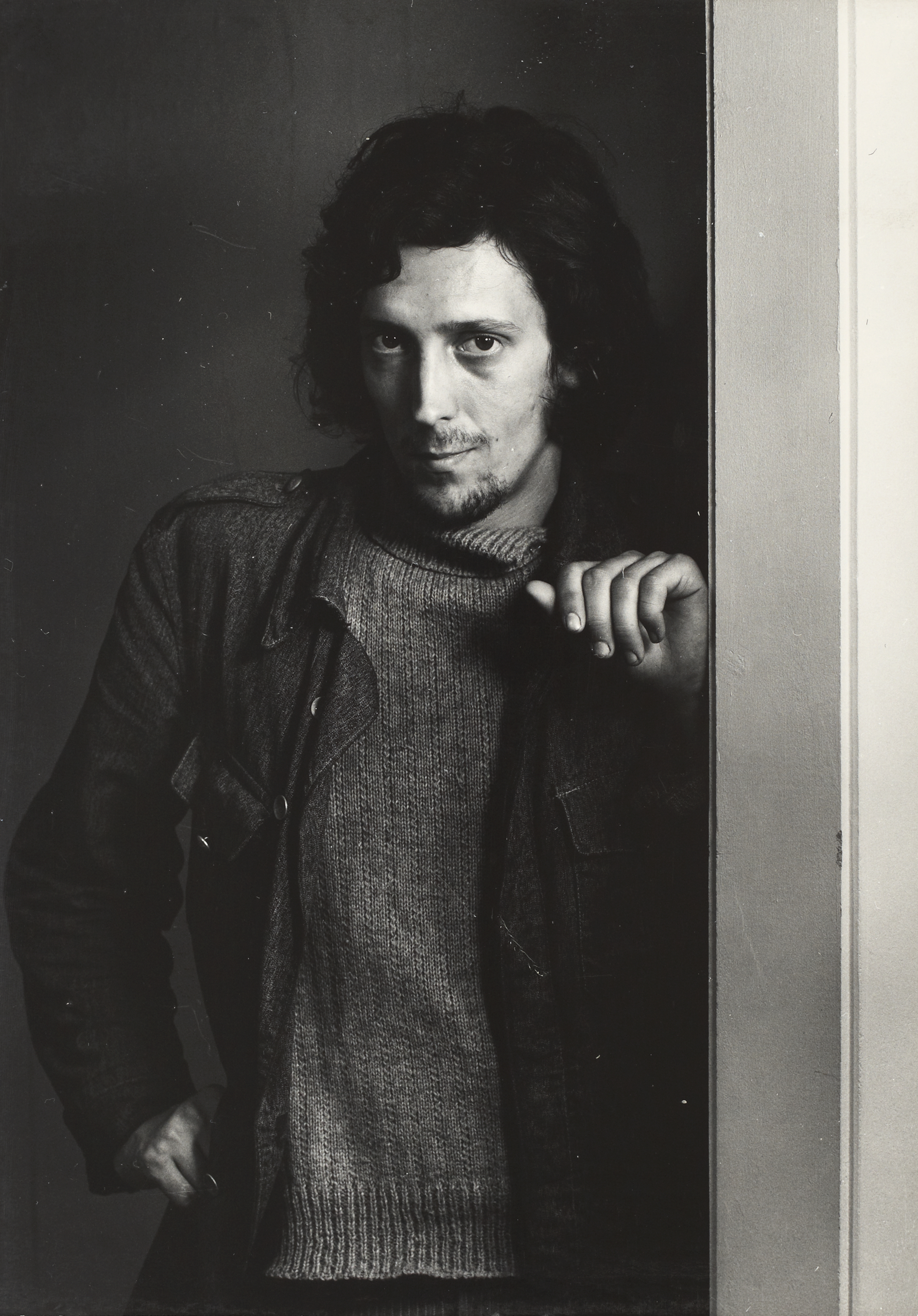 Photograph of the Finnish photographer Touko Yrttimaa (1947–).